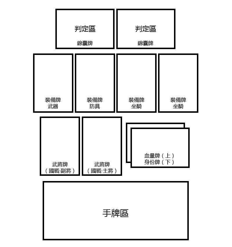 Placement of Personal Cards in a LTK Game (in Chinese)